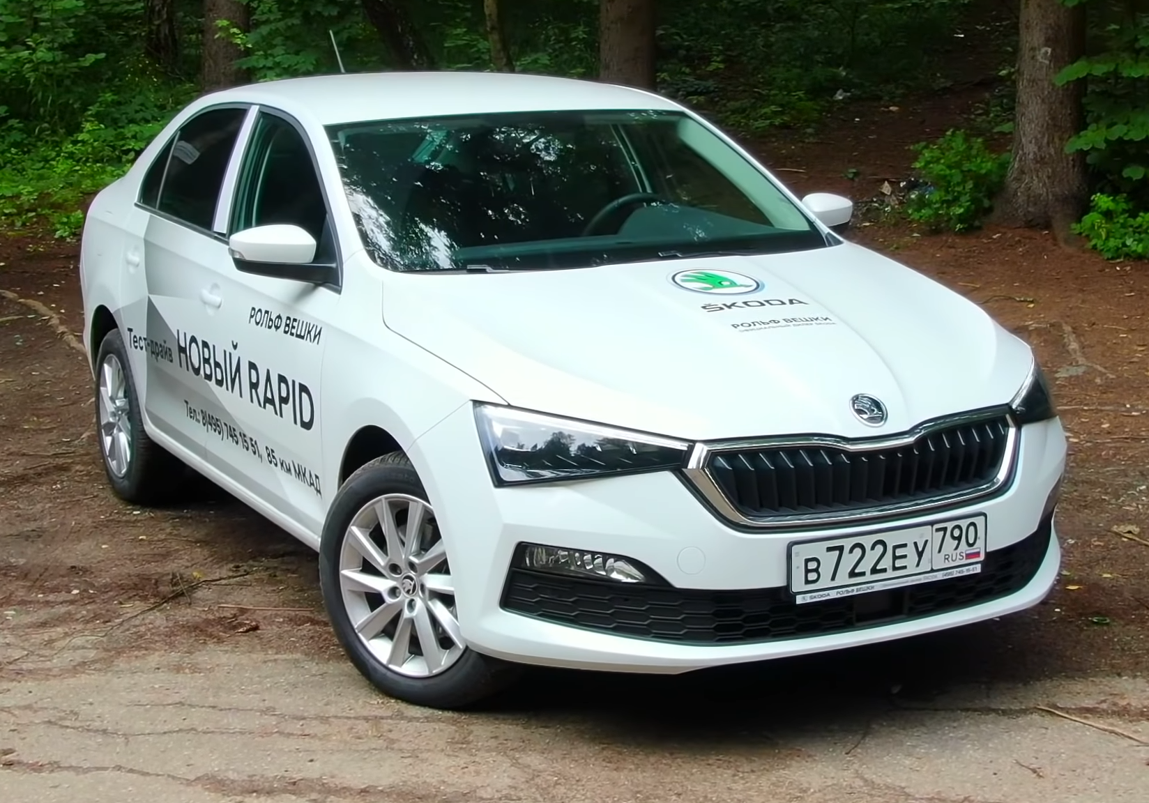 Škoda Rapid (2020 facelift, Russia) front view